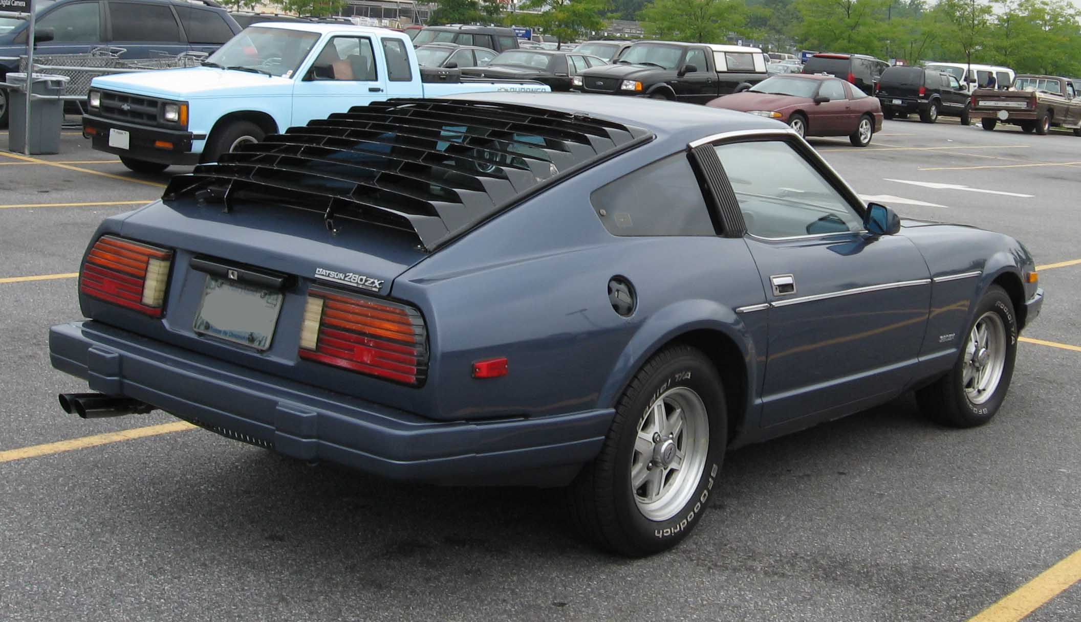 1979-1983 "Datsun by Nissan" 280ZX photographed in USA.